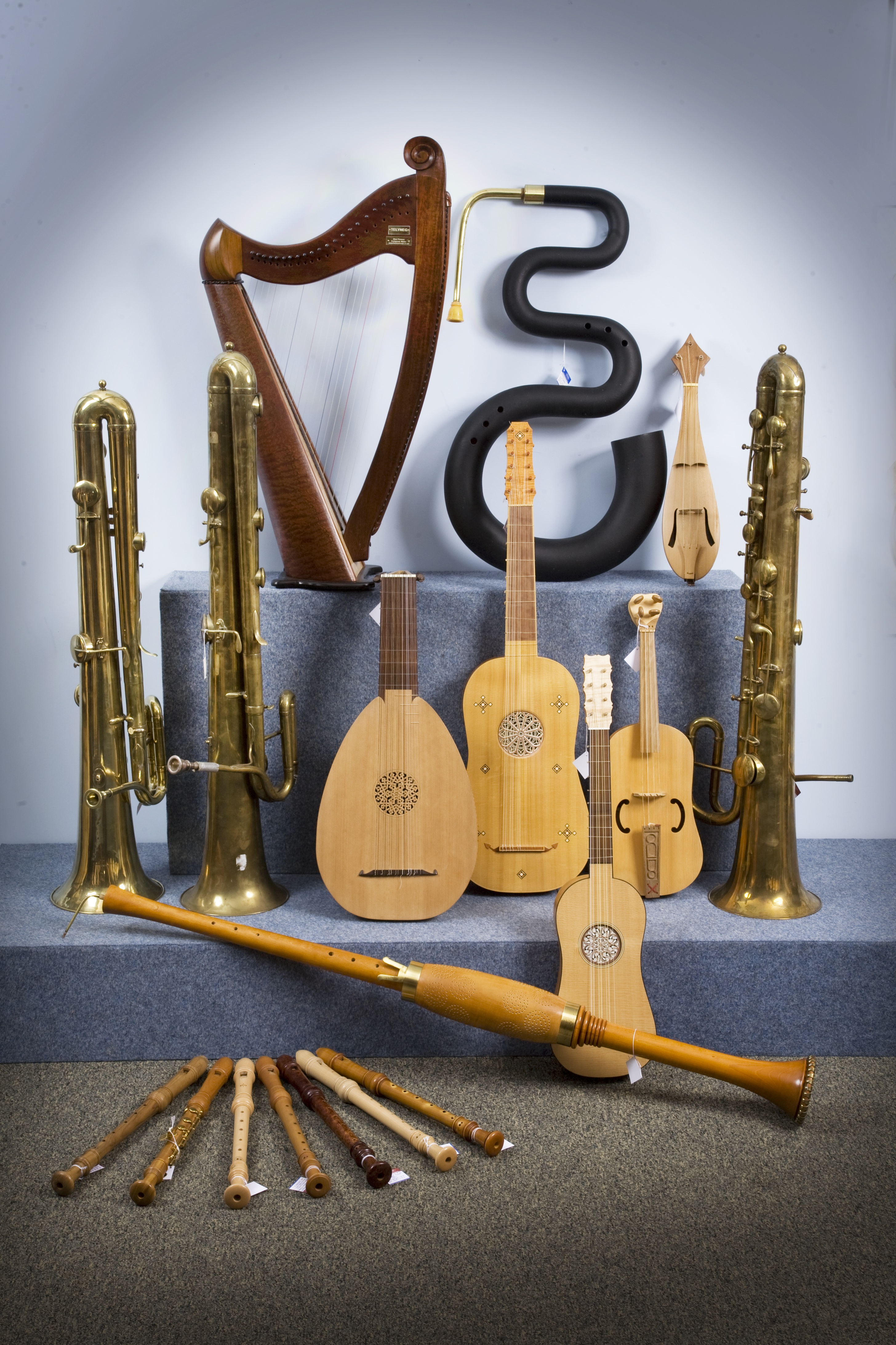 Some of the historical instruments that caught the public's eye after the birth of the early music revival.